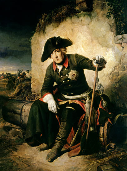 Frederick the Great after the Battle of Kolin by Julius Schrader.